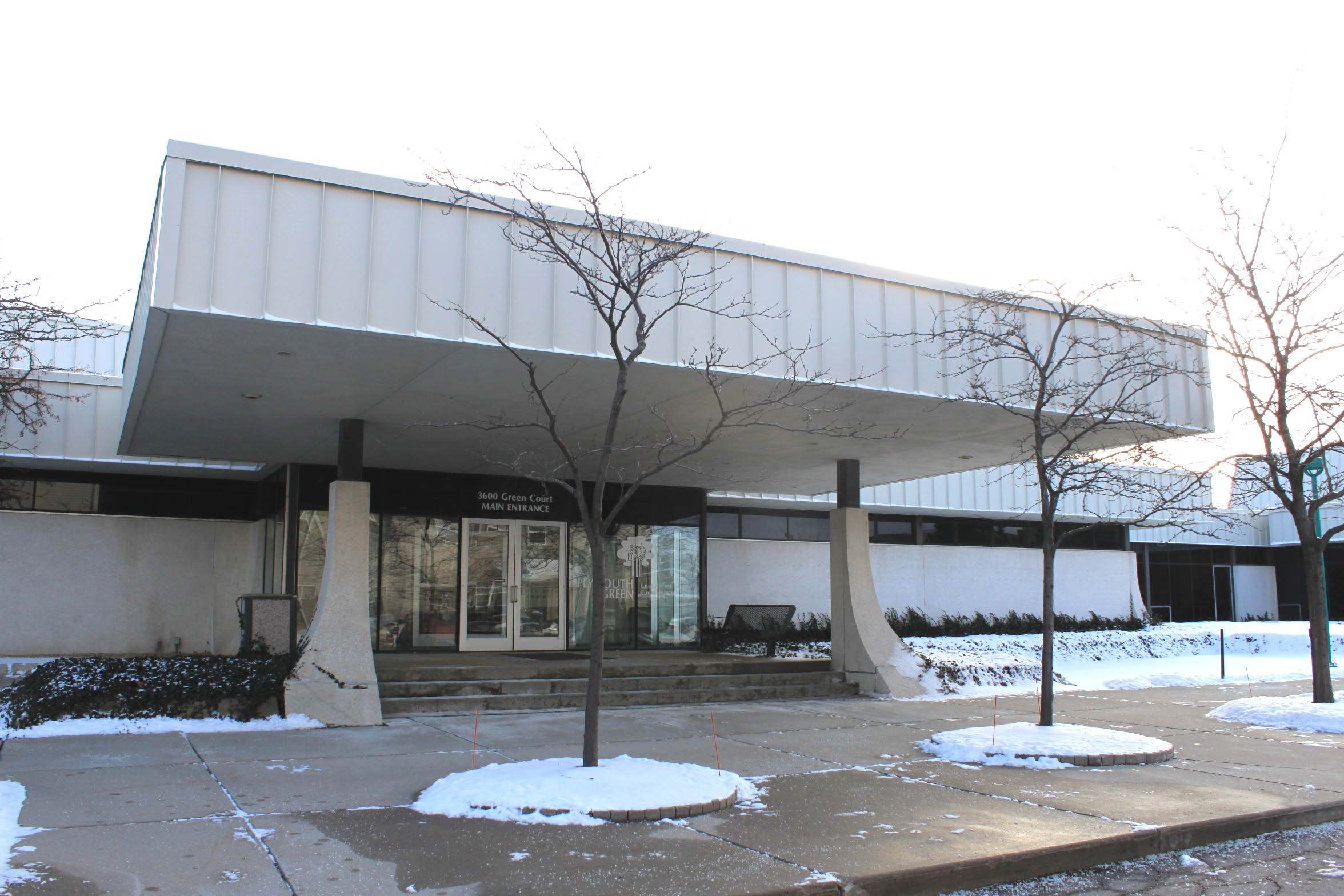 Plymouth Green Innovation Community main entrance, 3600 Green Court, Ann Arbor, Michigan. The building houses the Michigan Tech Research Institute.